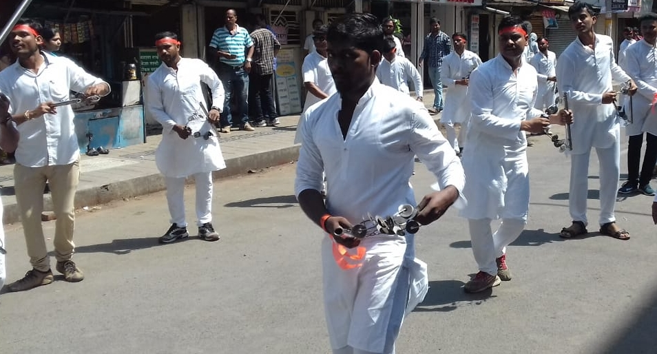 Lezim is an Indian musical instrument used in folk dance, also called as lezim.